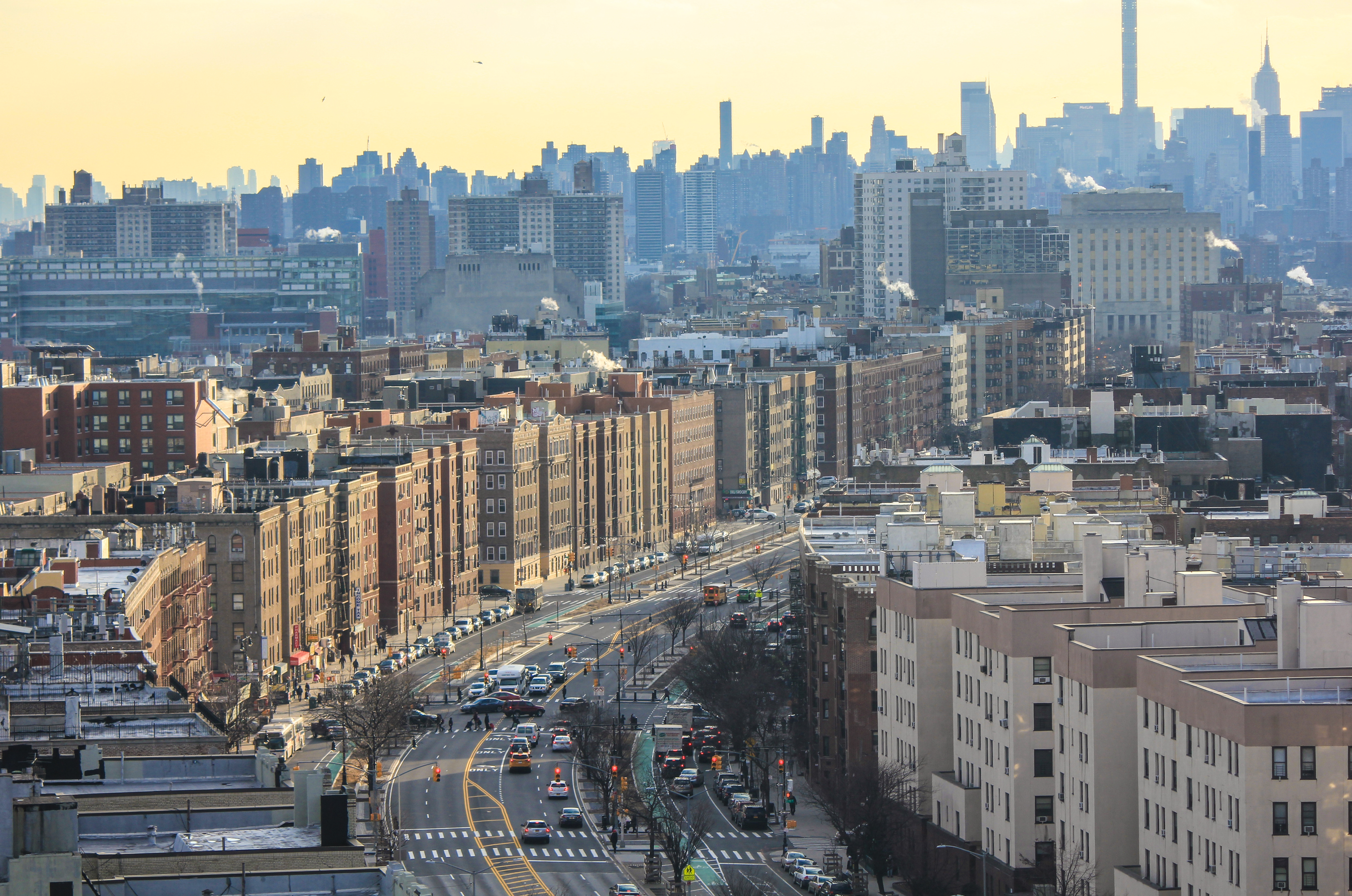 Looking South from 1650 Grand Concourse